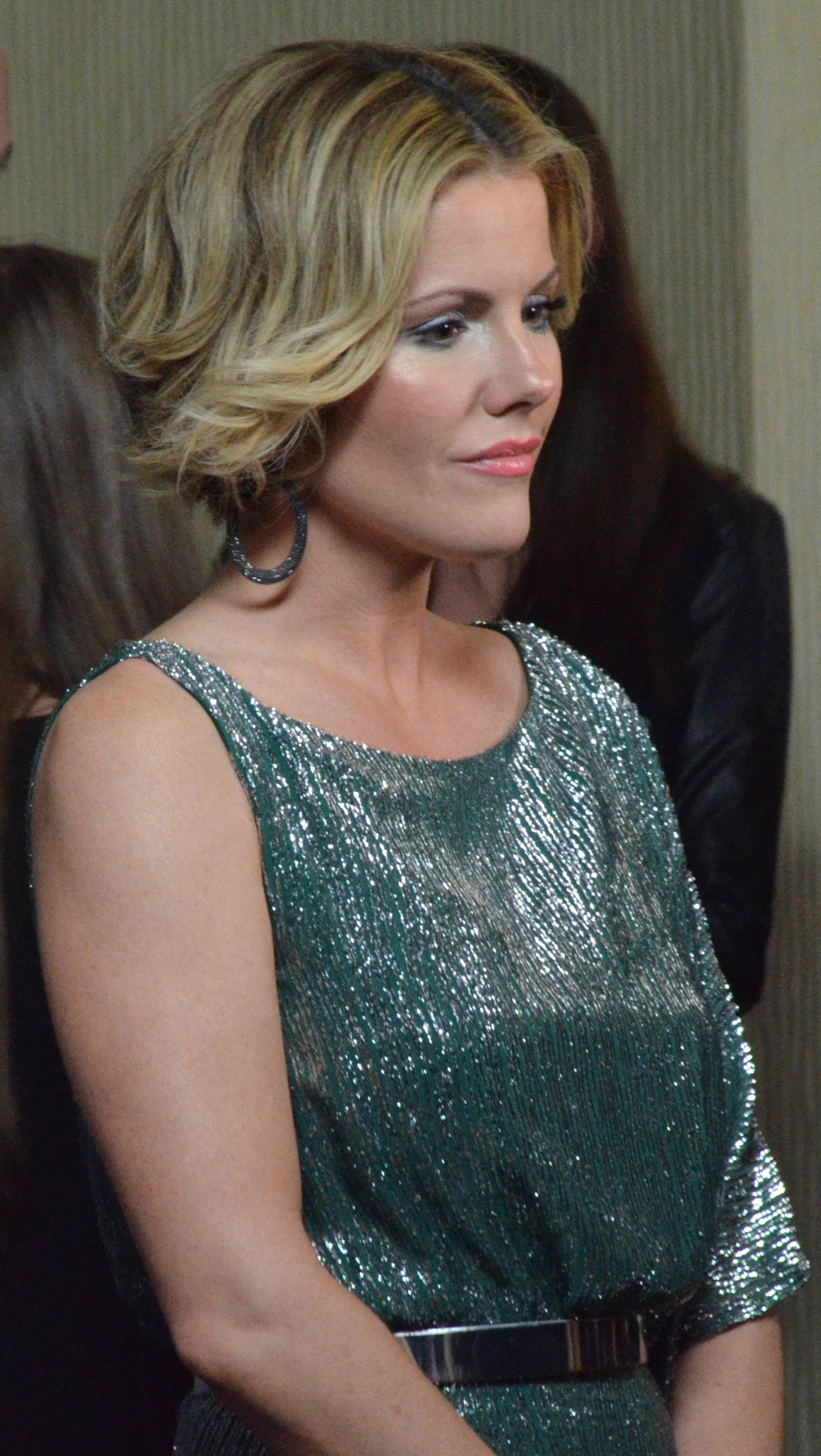 Mingle Media TV and Red Carpet Report